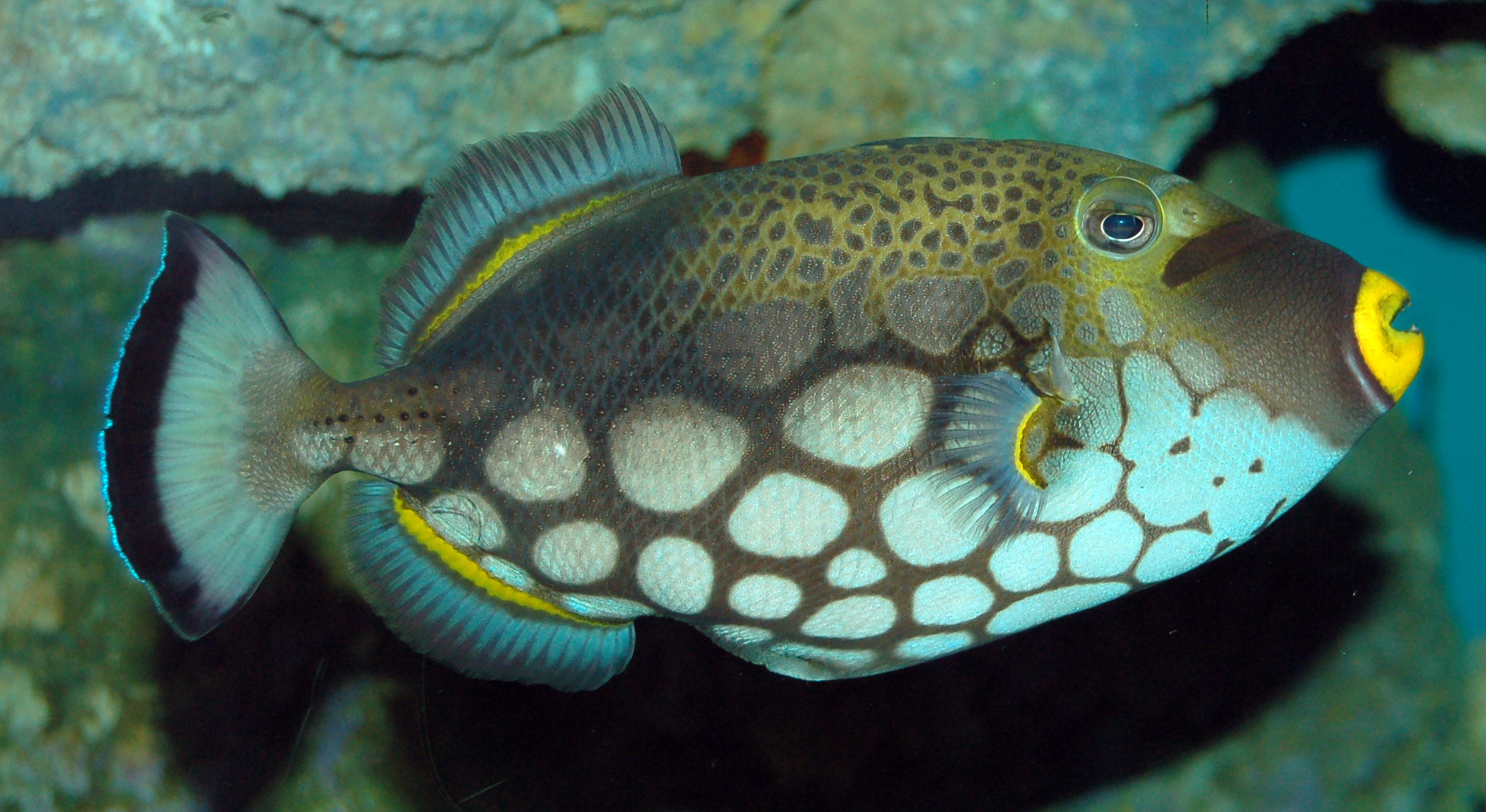 A photograph of a Clown Triggerfishen (Balistoides conspicillum en ). Photo taken at the PPG Aquarium in the Pittsburgh Zoo.